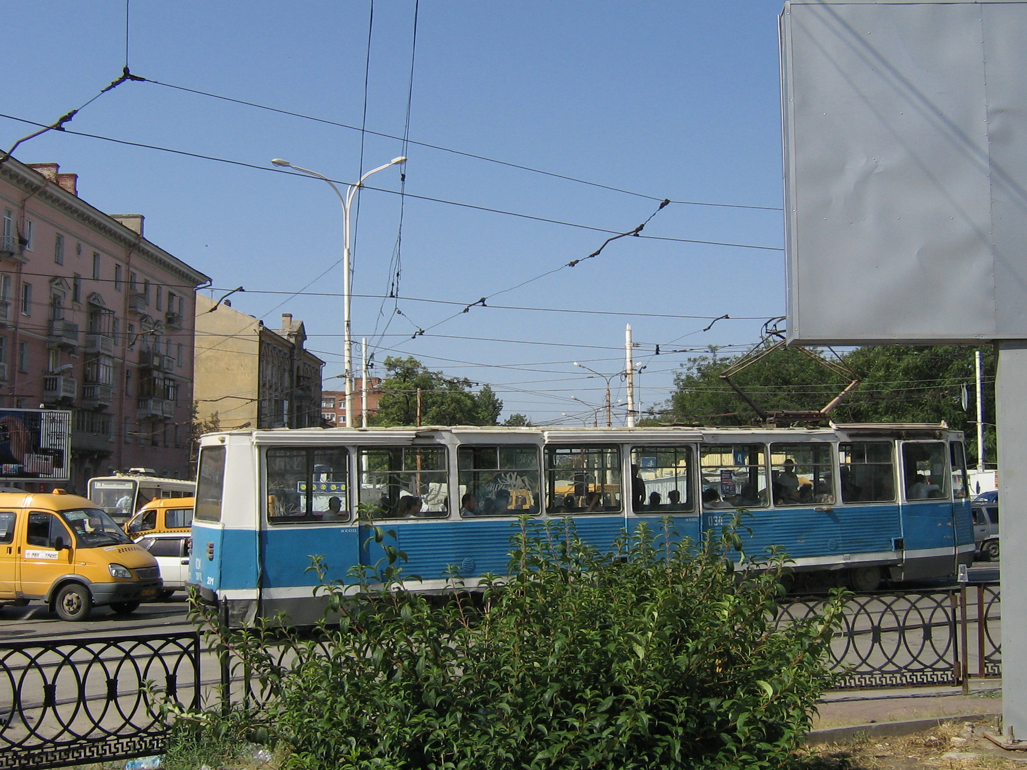 Tram (Rostov-on-Don)